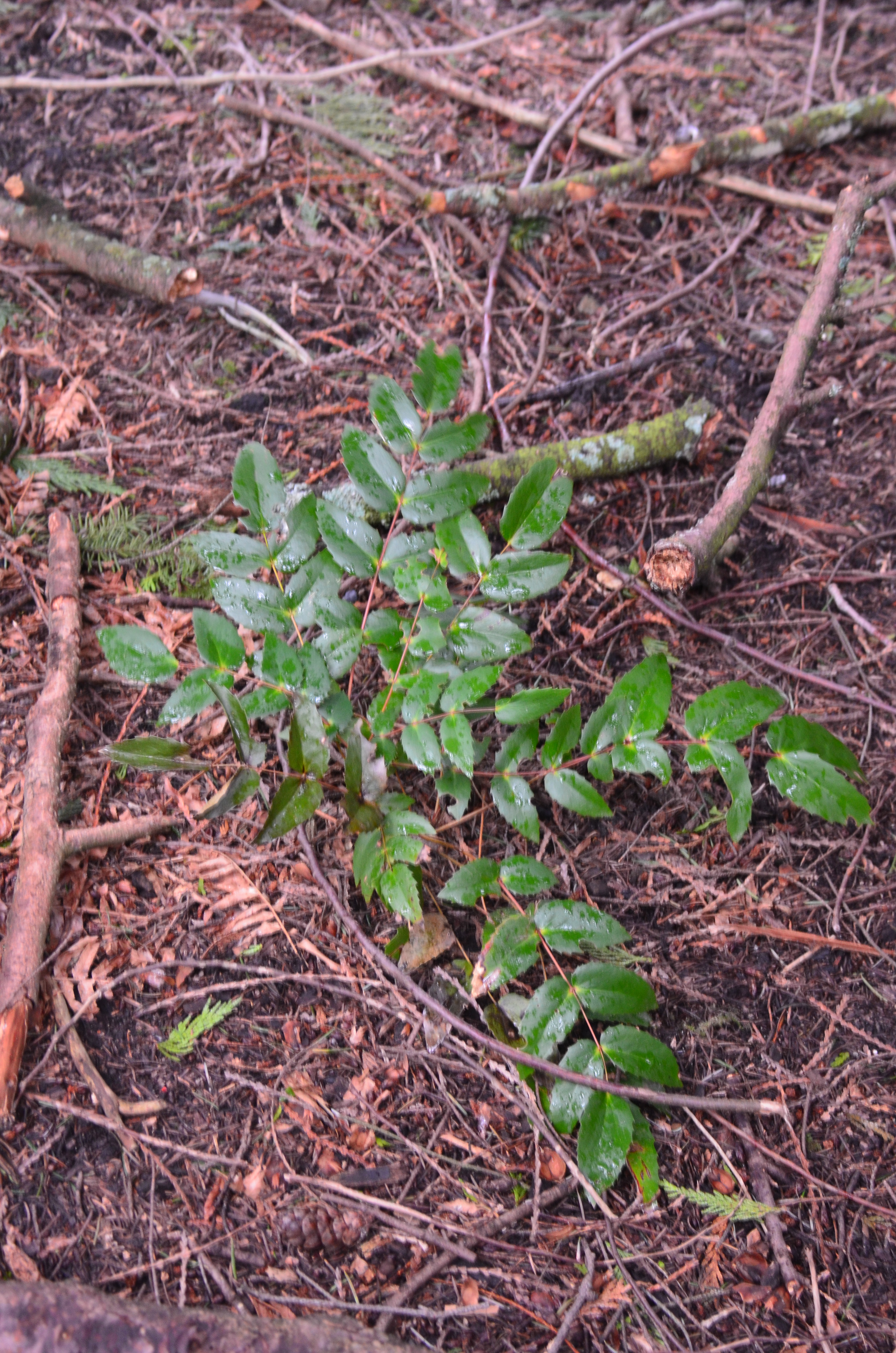 Oregon Grape in Lighthouse Park